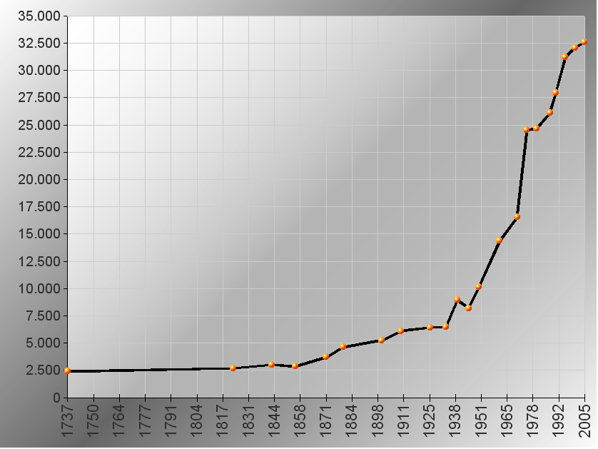 This image shows the population statistics of Crailsheim (Germany).